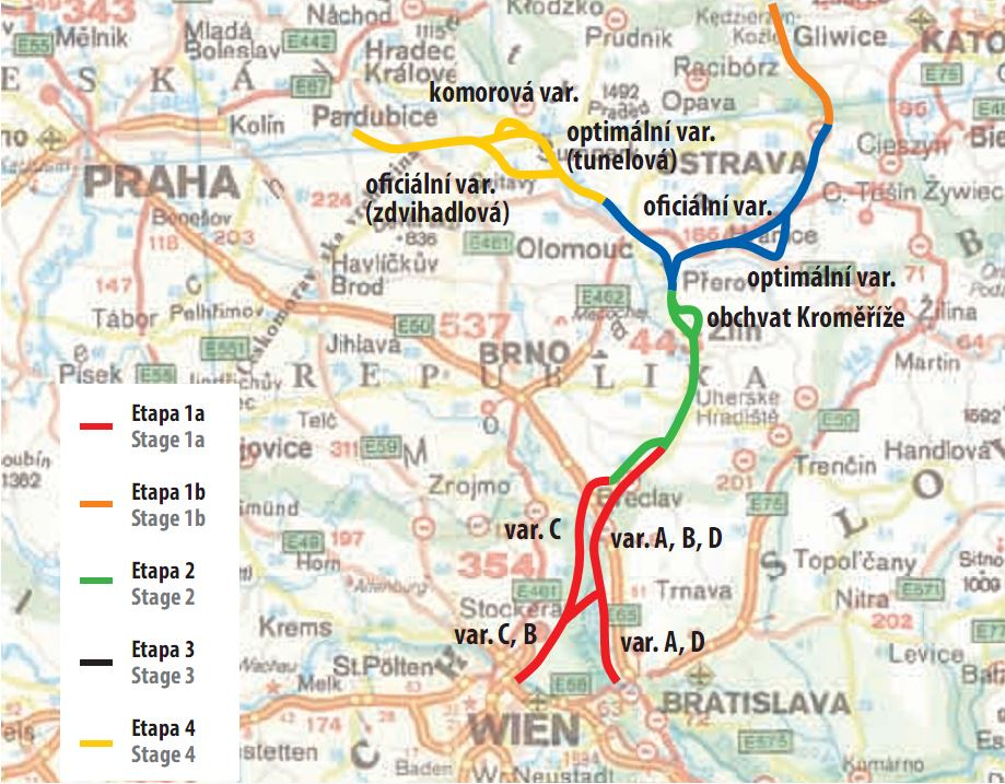 The map of varinats of Danube Oder Elbe canal